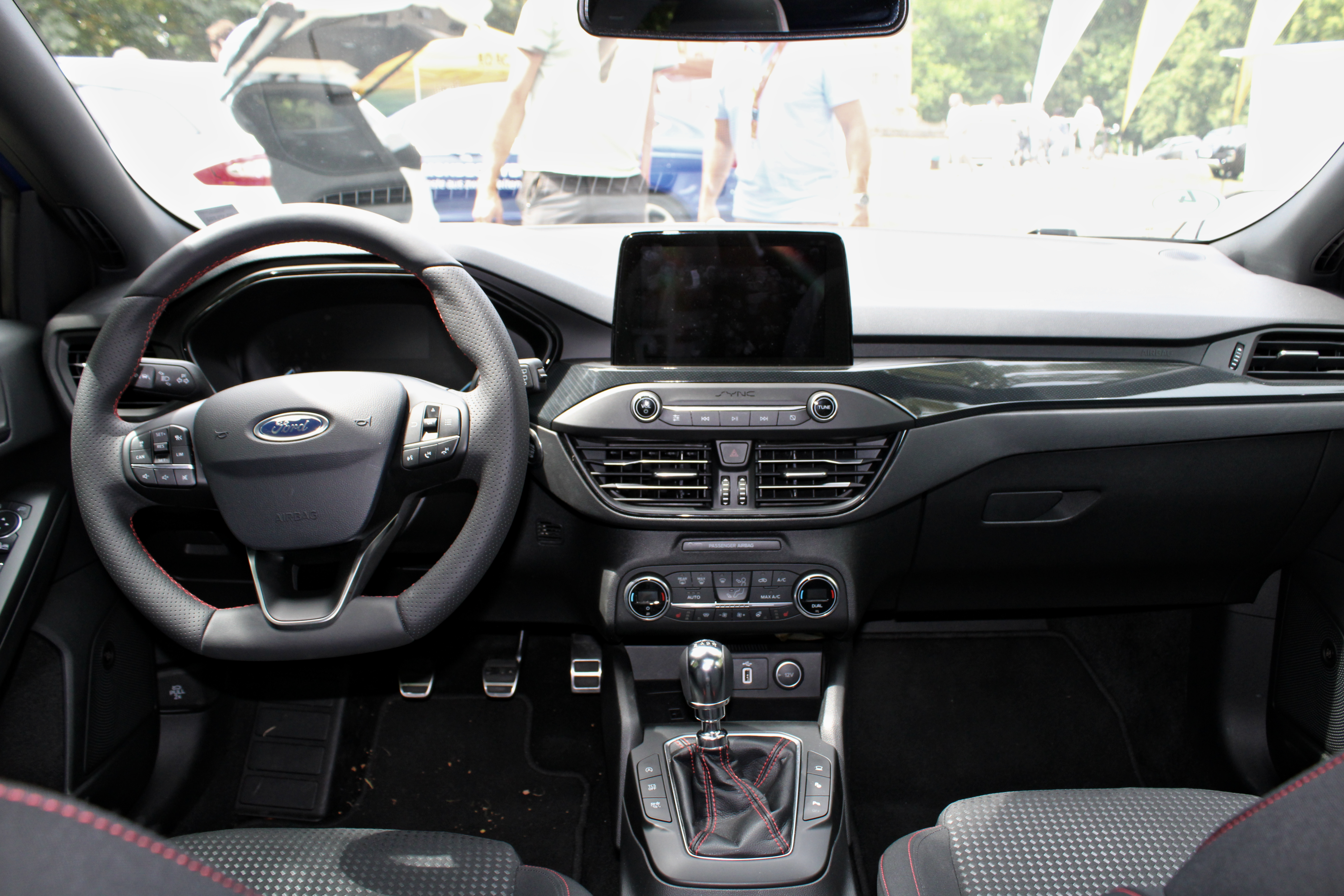 Ford Focus at schloss Monrepos